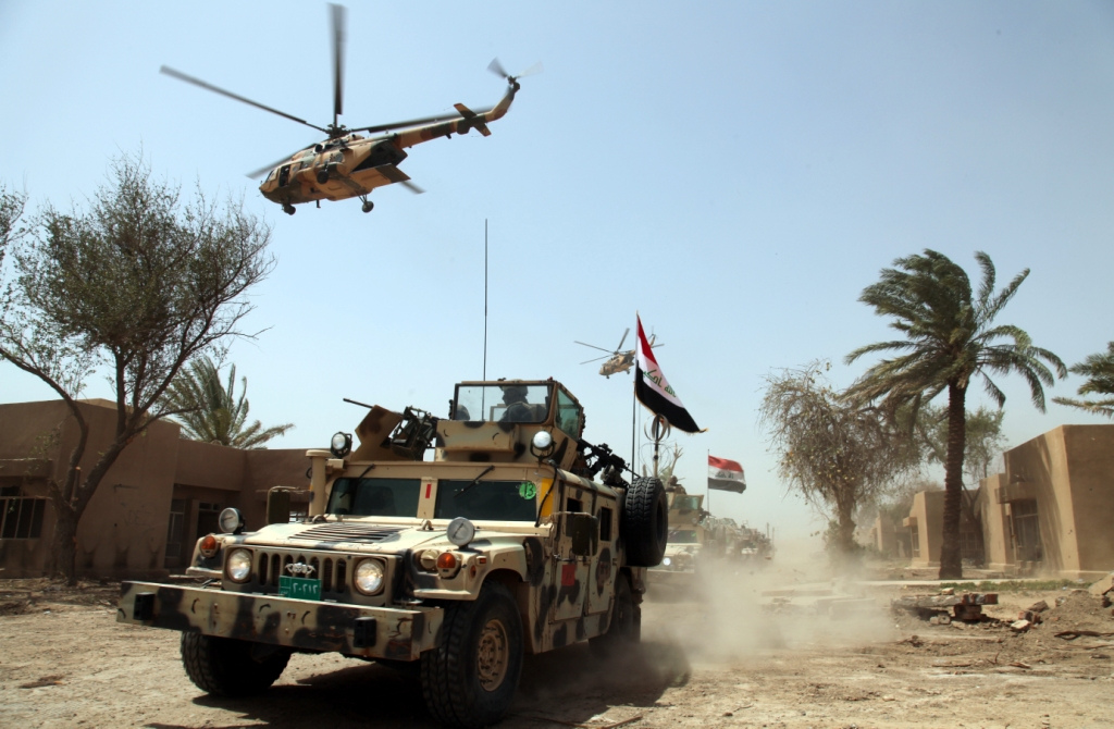 Baghdad, Iraq- Iraqi Special Operations Forces (ISOF) participate in Lion's Leap on April 26. Members of the Combined Joint Special Operations Task Force-Arabian Peninsula (CJSOTF-AP) advise, train, and assist Iraqi Security Forces during Operation New Dawn. (Photo by Army Sgt. Andrew Jacob, Special Operations Task Force-Central)